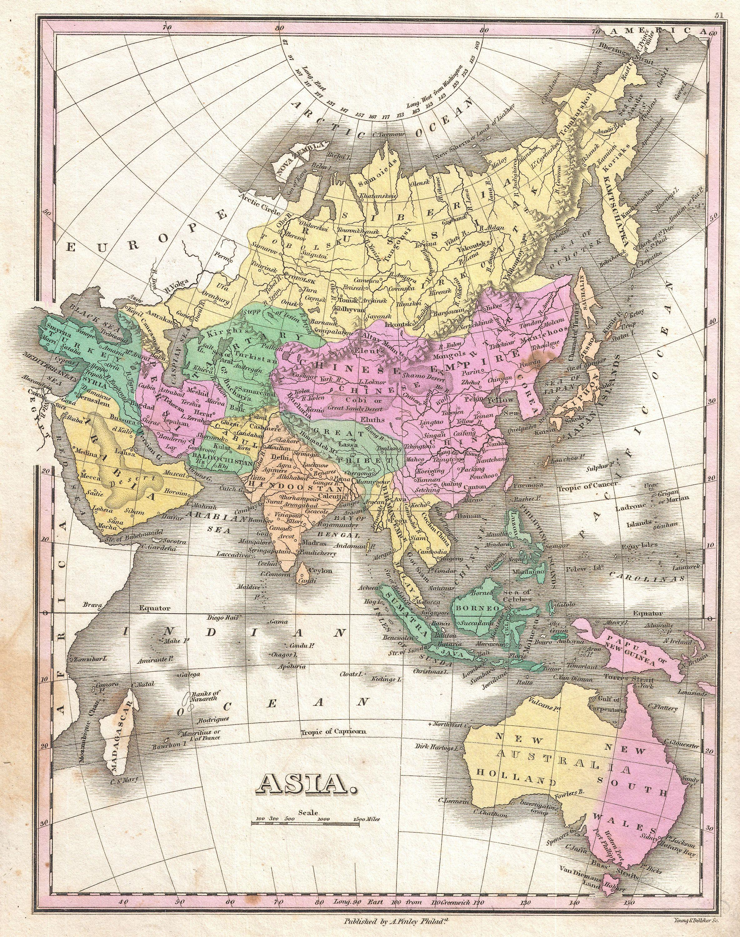 A beautiful example of Finley's important 1827 map of Asia. Depicts from the Black Sea and Arabia eastward to the Behring Strait and Papua New Guinea. Includes Australia (New Holland) and the East India Islands with Asia, as was common in this period. The Land of Liakhov, more widely known as the Legendary Ivory Islands, appear in the Russian Arctic. Ivan Liakhov discovered these islands in the late 18th century and was astounded to find that they contained so much fossil mammoth ivory that the entire archipelago seemed to be composed of the stuff. Engraved by Young and Delleker for the 1827 edition of Anthony Finley's General Atlas .